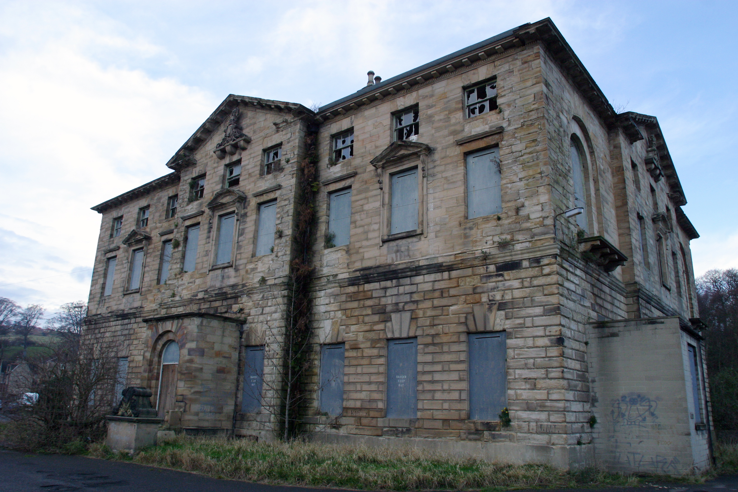 Axwell Hall, near Whickham, outside Newcastle in 2003. Plans were made in 2006 to turn this once majestic building into ... you guessed it, apartments (anything is better than this though).